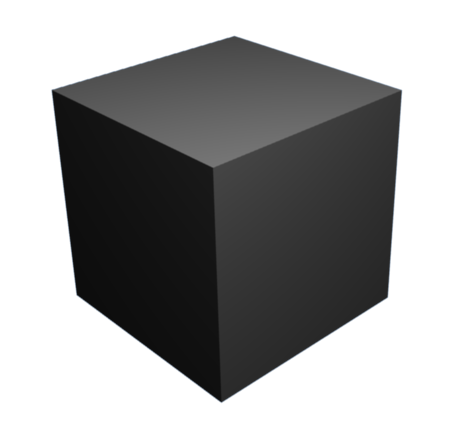 Cube done with Blender.